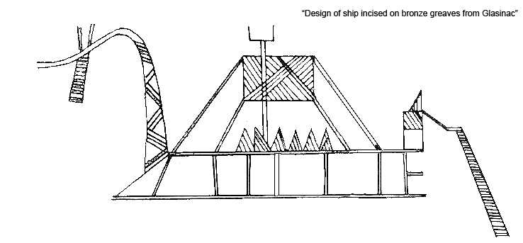 Design of ship incised on bronze greaves from Glasinac,data from from "The Illyrians (The Peoples of Europe) by John Wilkes,1996,page 44"